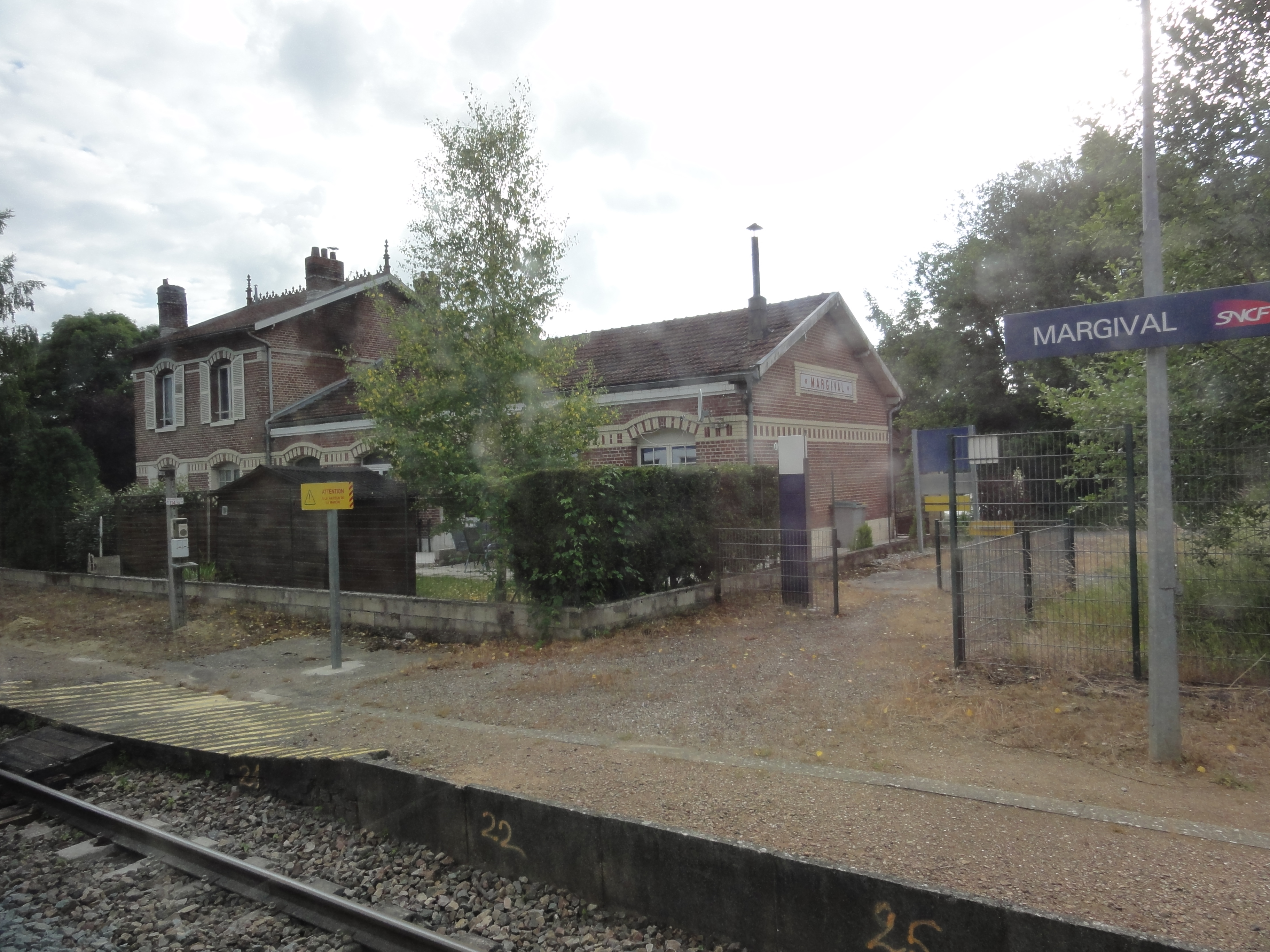 Margival (Aisne) la gare à travers la vitre d'un train